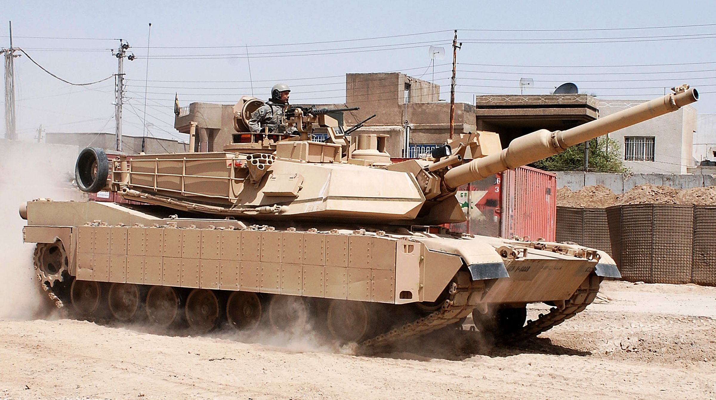 M1A2 SEP Abrams TUSK demonstrating Mounted Soldier System